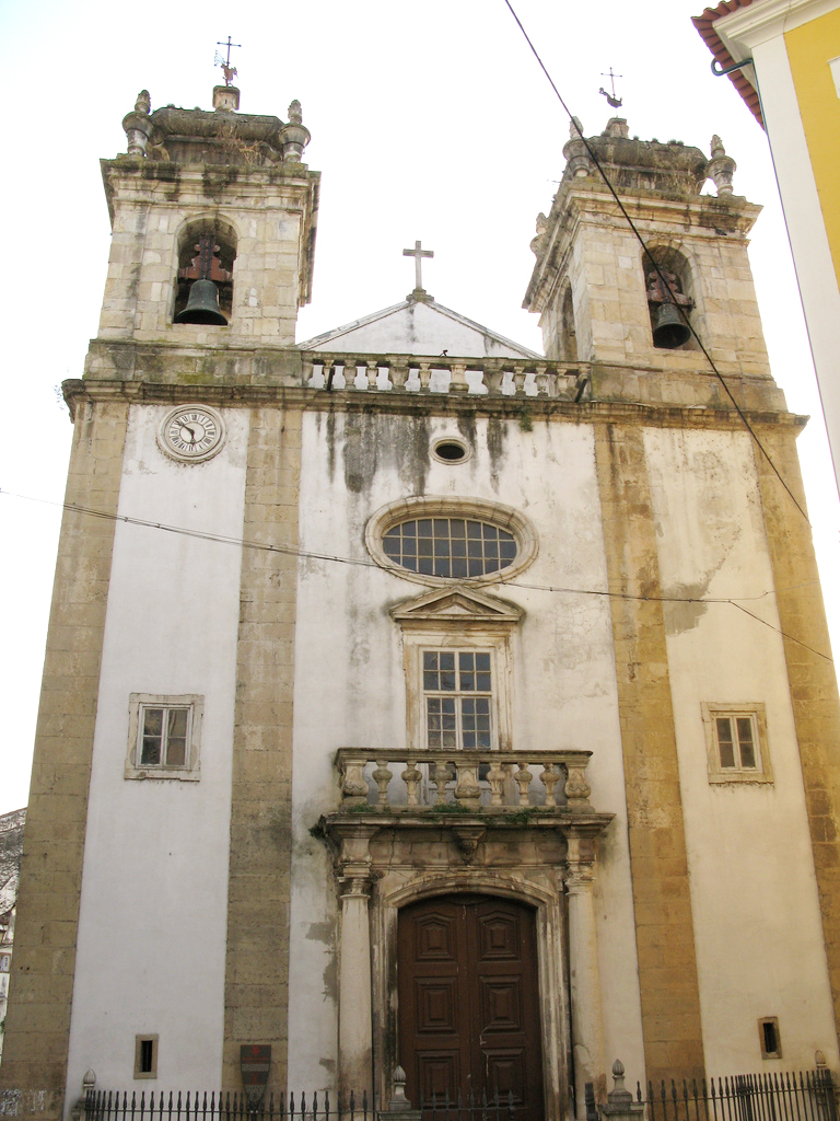 St Bartolomeu Church in Coimbra, Portugal